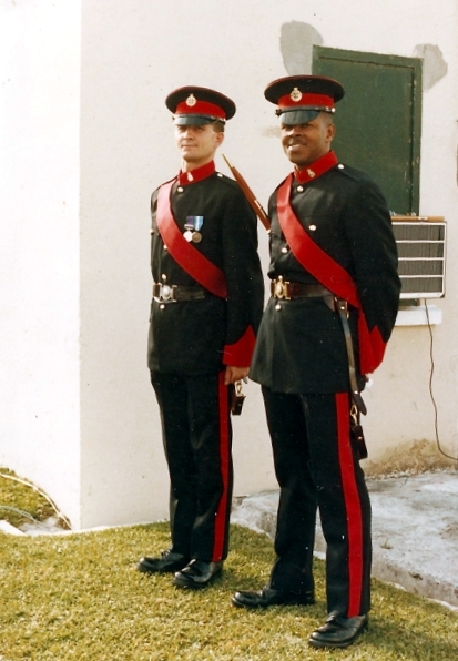 Two Warrant Officers, Second Class (WO2) of the Royal Bermuda Regiment's Training Company. The WO2 at left, standing at attention, is the Company's (full-time) Permanent Staff Instructor (PSI). The other, standing at ease, is the (part-time) Company Sergeant Major (CSM), as indicated by the pace stick carried under his arm.